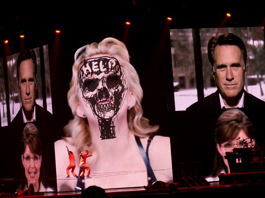 Madonna's MDNA concert at Staples Center